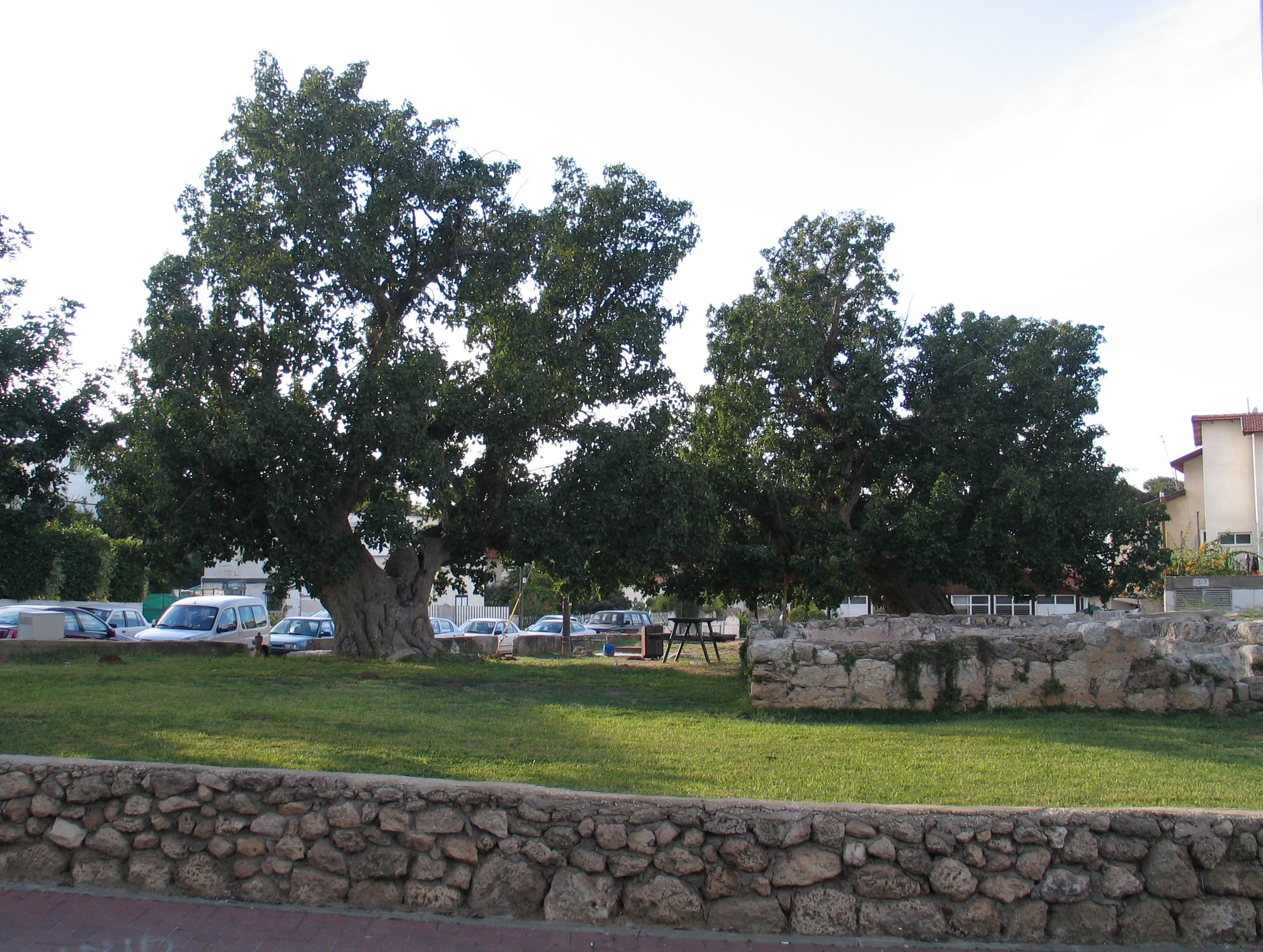 Old sycamore trees in Azor, Israel.